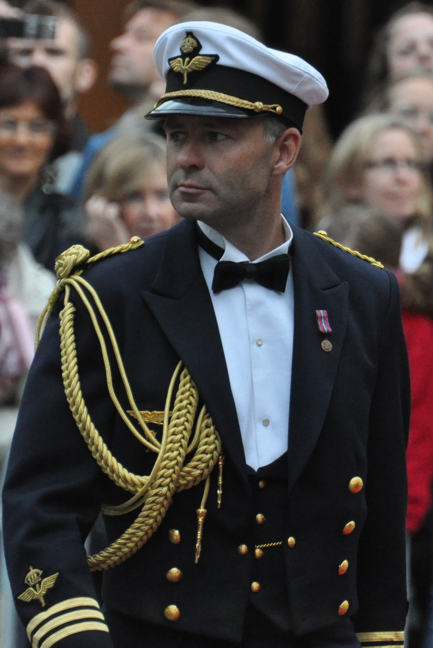 Lieutenant colonel Stefan Wilson at the wedding of Victoria, Crown Princess of Sweden, and Daniel Westling; Arrival of members for the Government and Swedish and foreign guests of hounour to the Riksdag's Gala Performance at Konserthuset